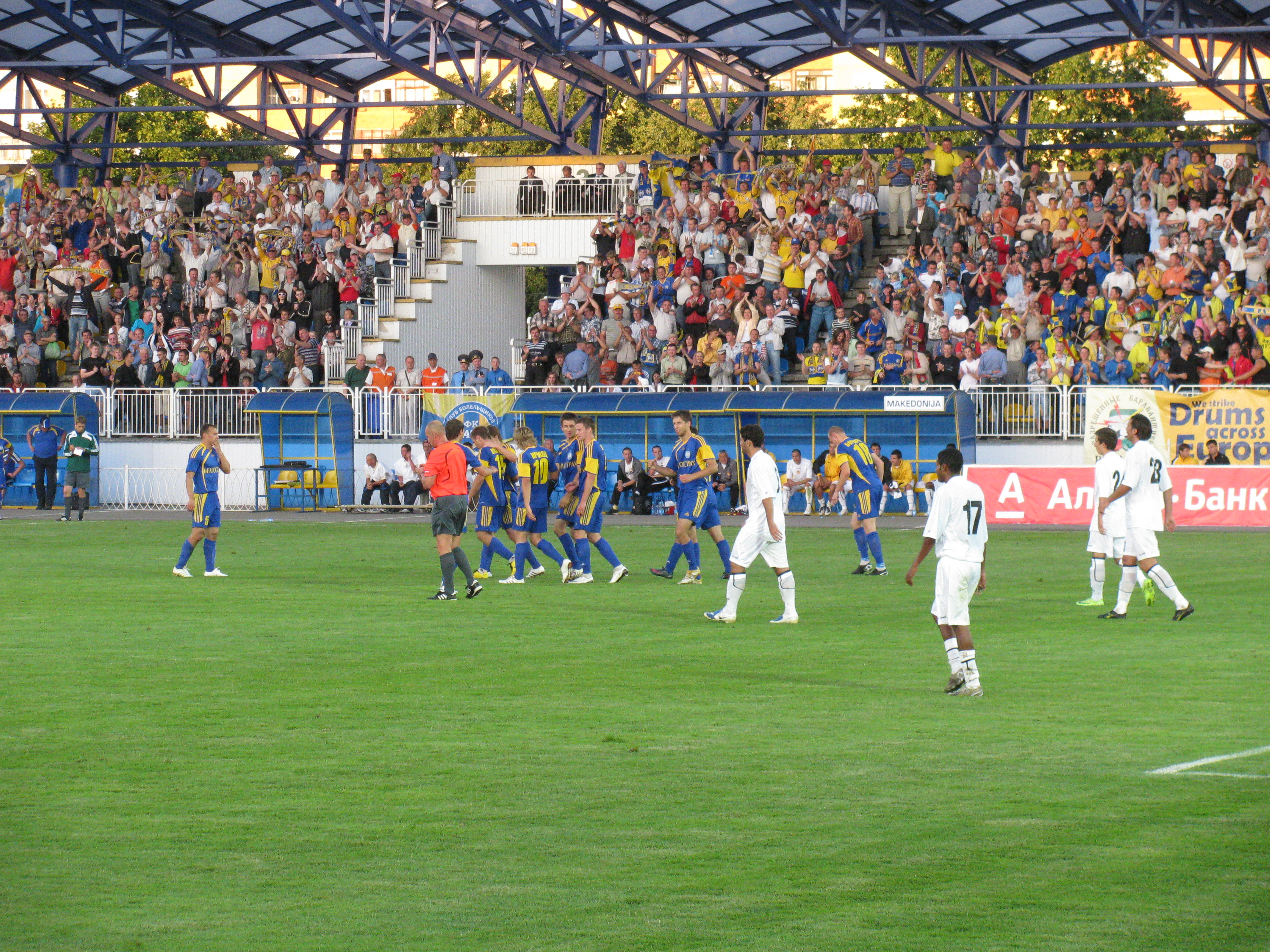 This is a picture taken during the game of BATE football team at Borisov, Belarus